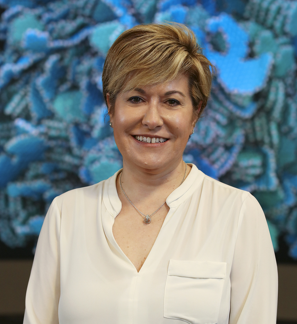 Georgia "Gina" Tourassi, director of the Oak Ridge National Laboratory Health Data Sciences Institute. Courtesy of Oak Ridge National Laboratory, U.S. Dept. of Energy.